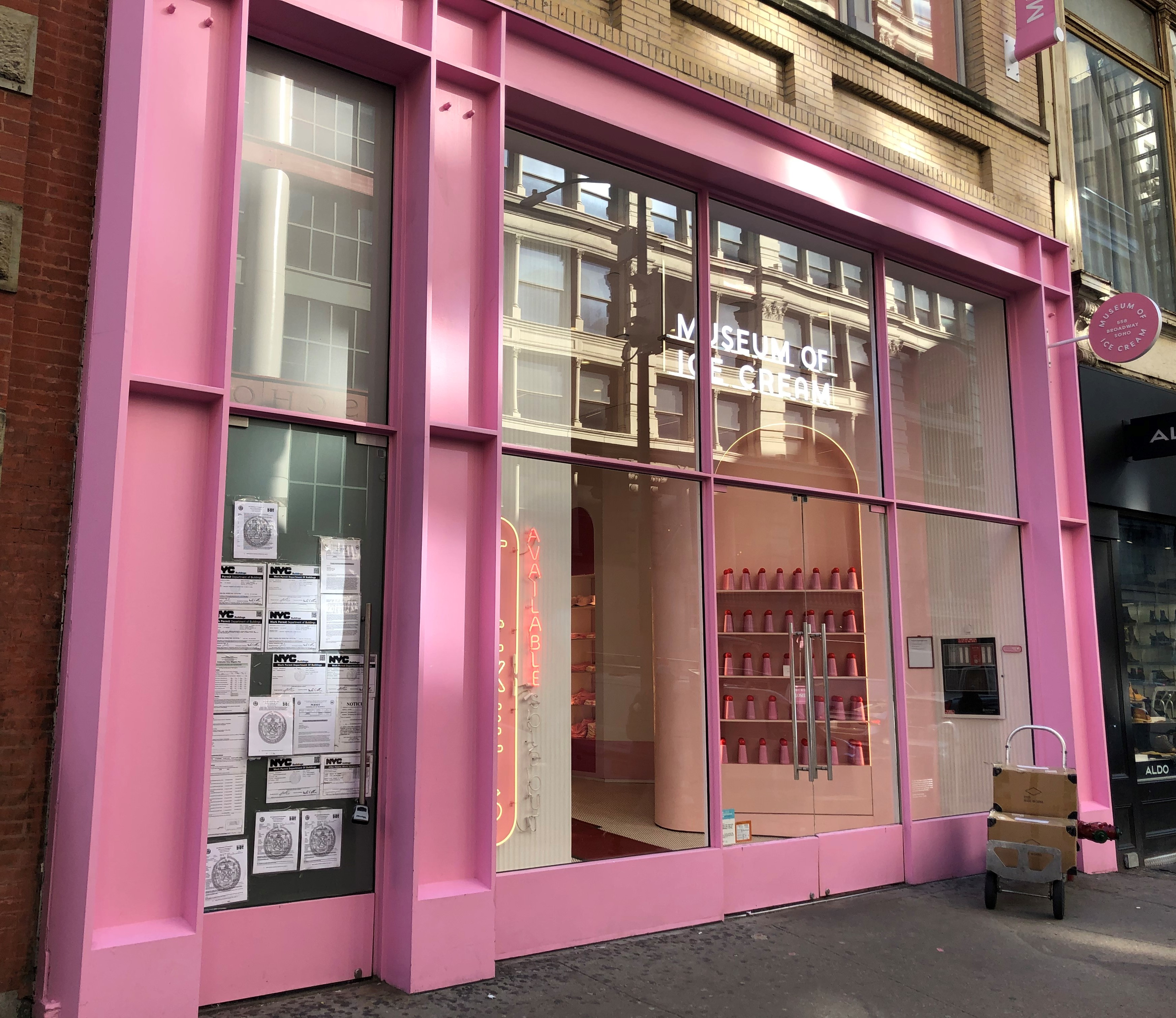 The Museum of Ice Cream at 558 Broadway in the Soho neighborhood of Manhattan, New York City.